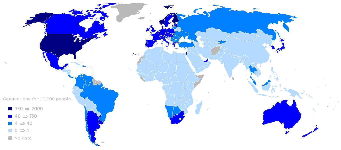 Map shows the extension of internet connections based on data from the World Bank's World Development Report 2000 and the Internet Software Consortium ISC